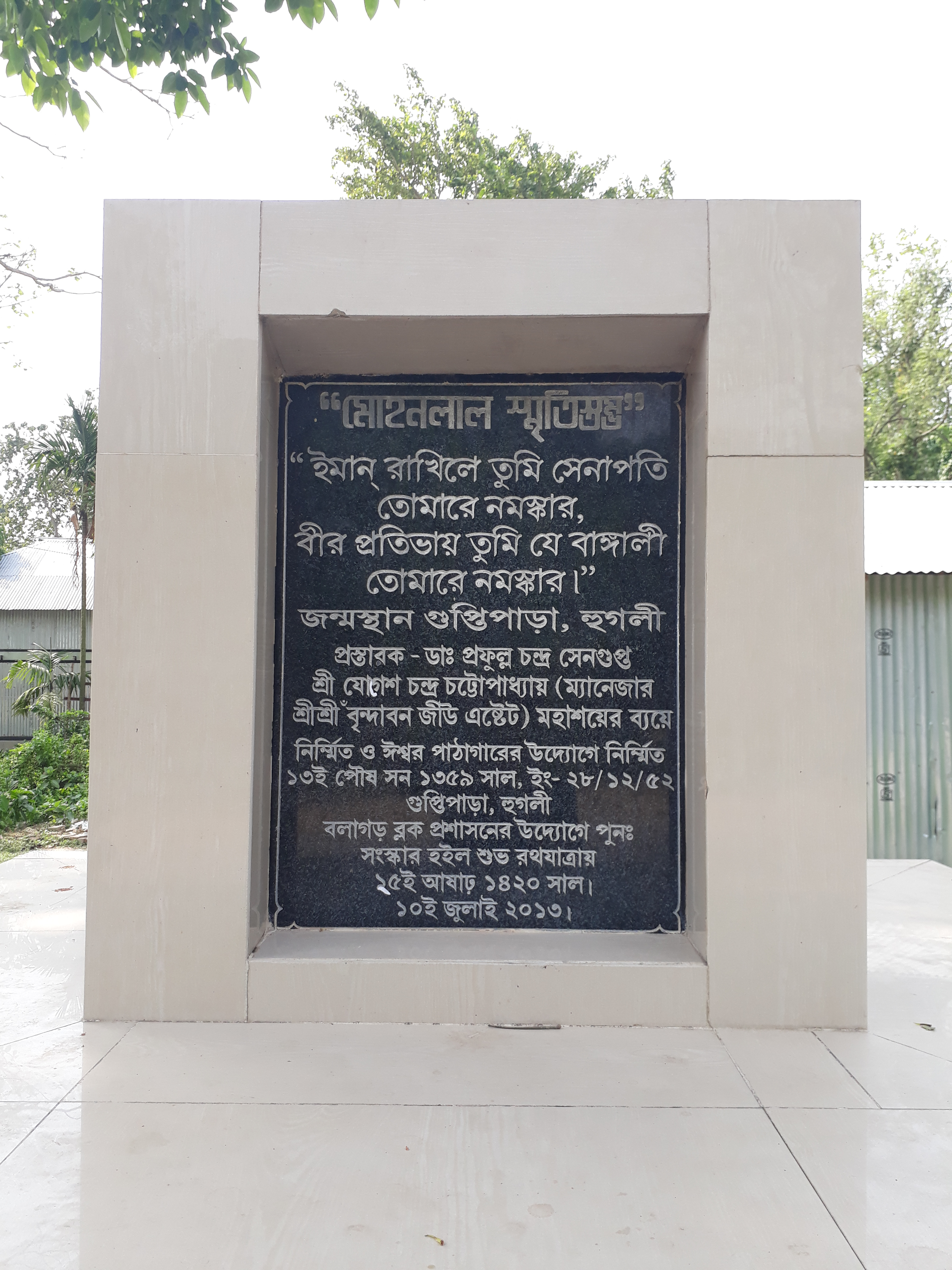 Memoirs of Dewan Mohanlal, Guptipara, Hooghly